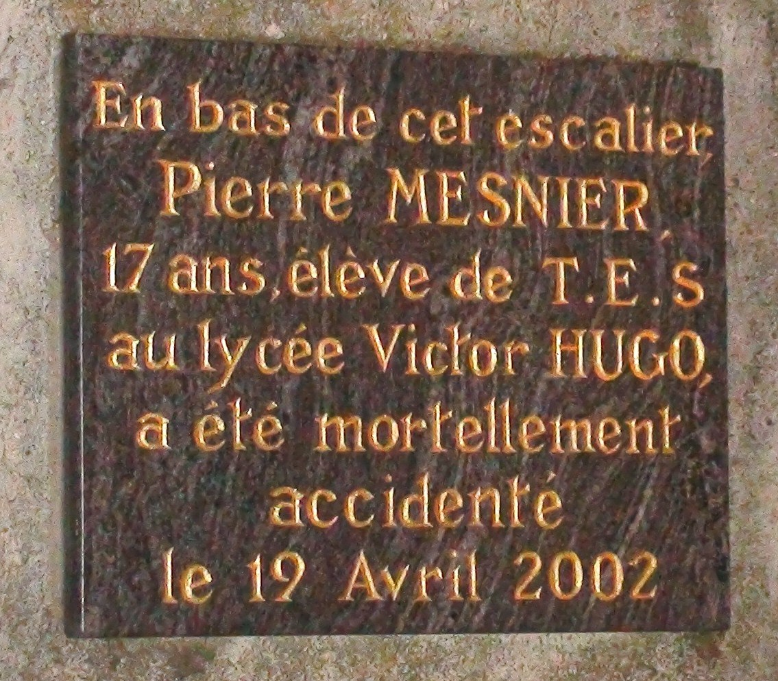 Commemorative plaque of Pierre Mesnier, death in an accident in Planoise (France)